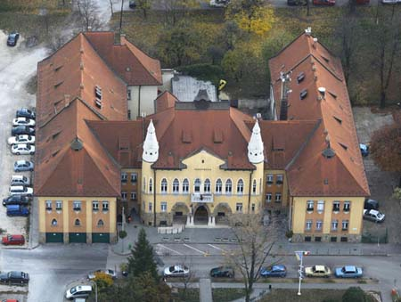 XXII district, Budapest, Hungary, aerial photography